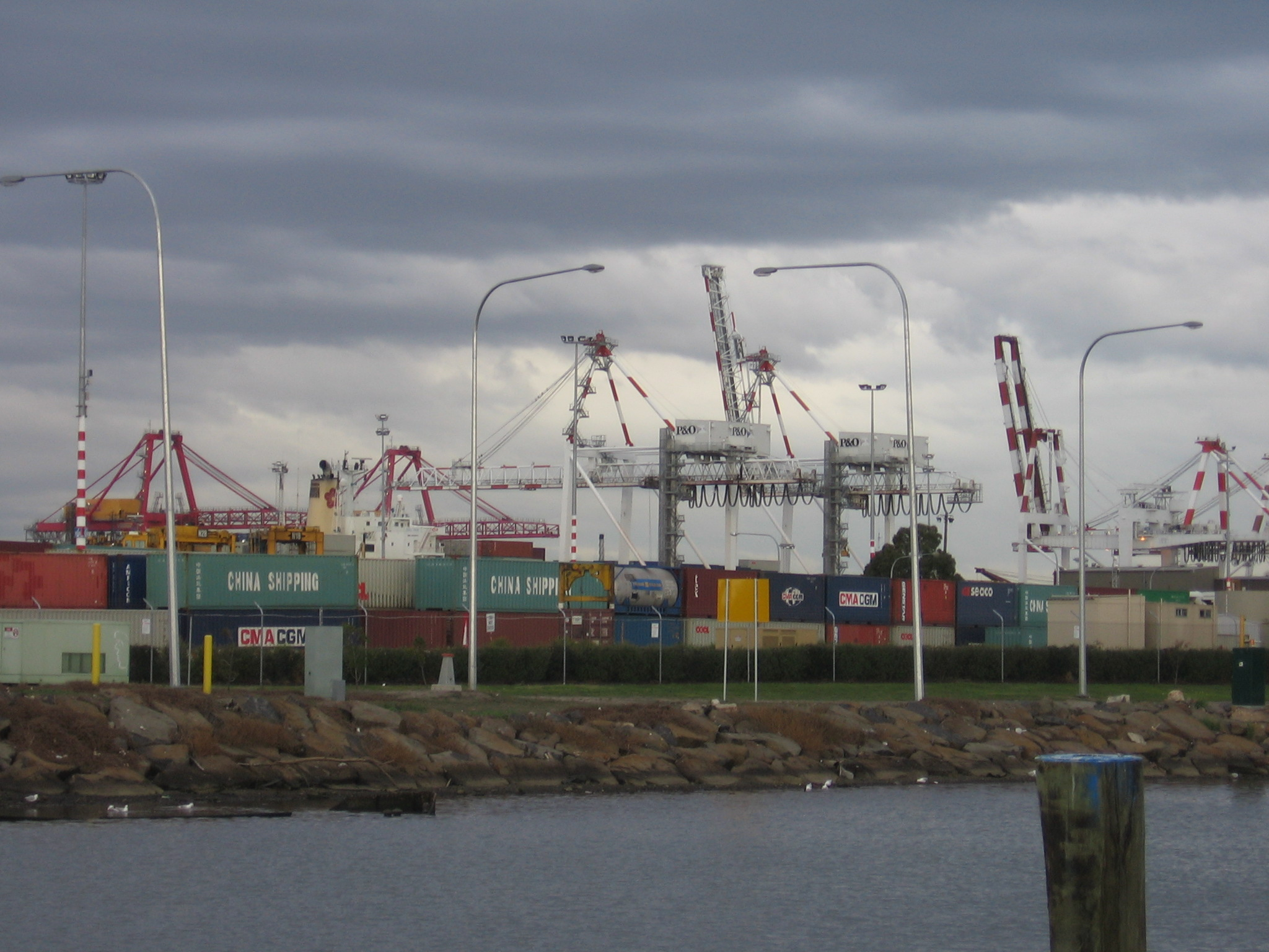 View of shipping containers and cranes at Coode Island, Victoria